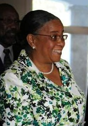 Mirlande Manigat